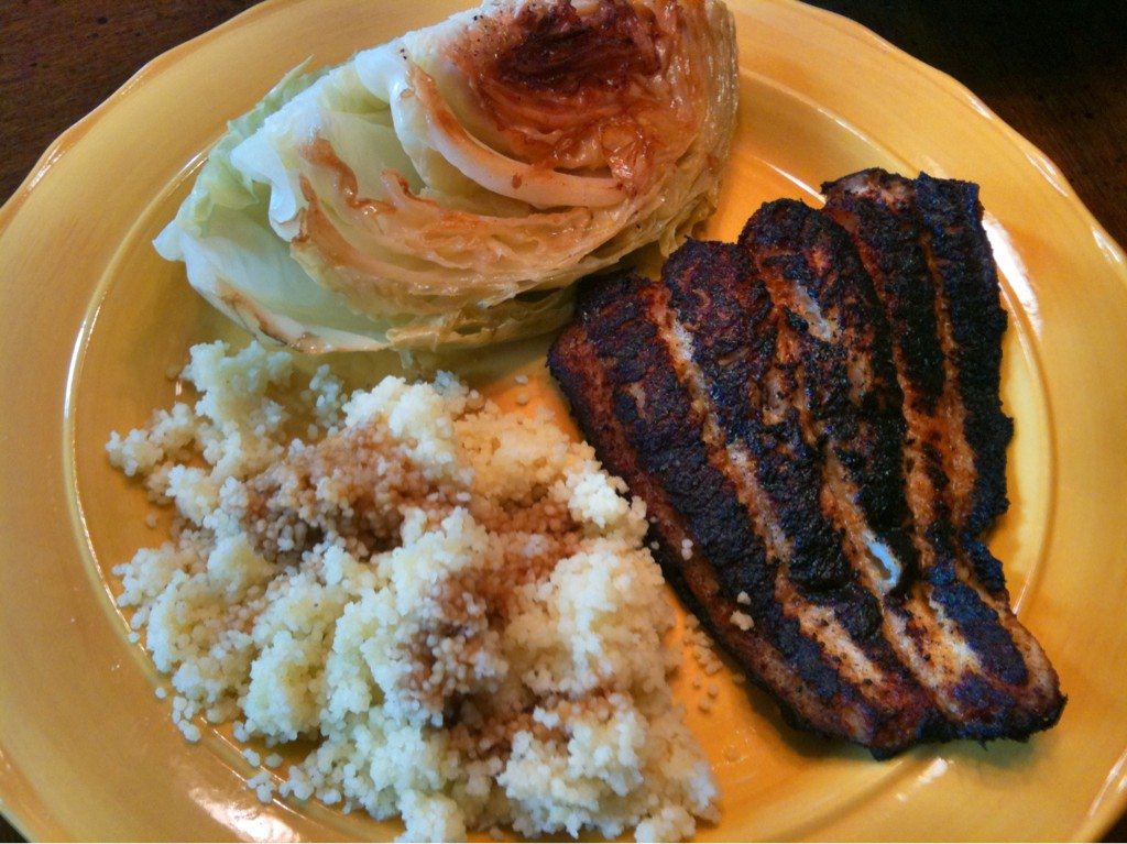 Posted from Twitter